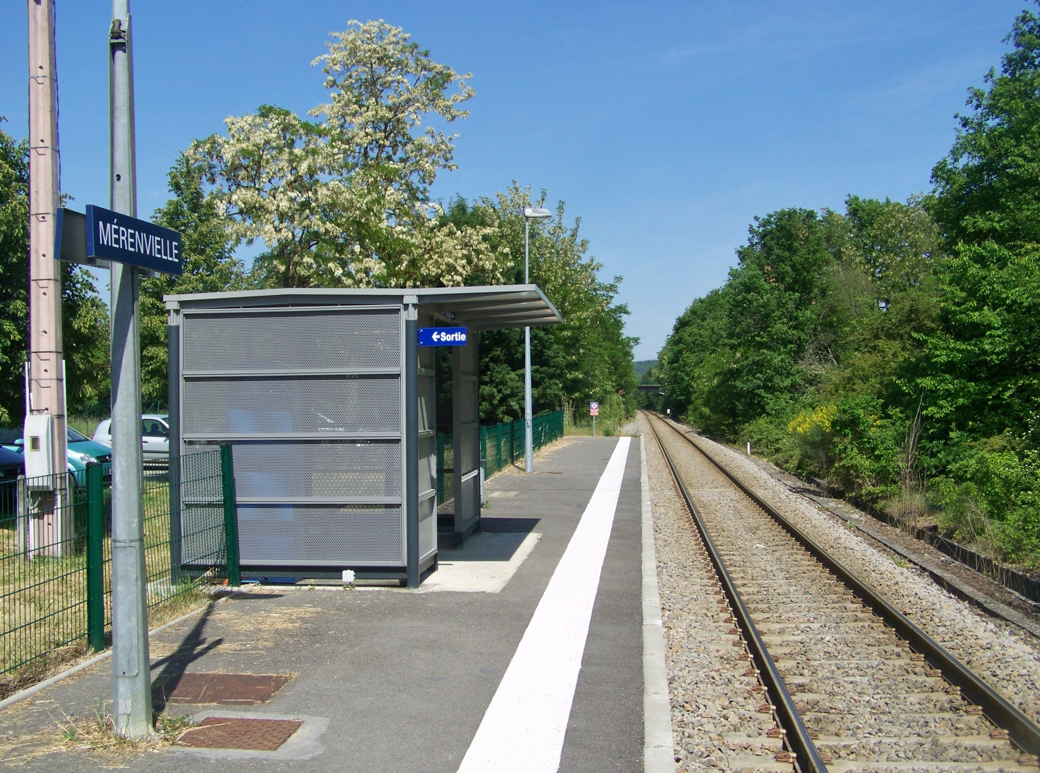 View, in the direction of Toulouse, of the single track and platform of the Mérenvielle railway station, in Haute-Garonne, France.